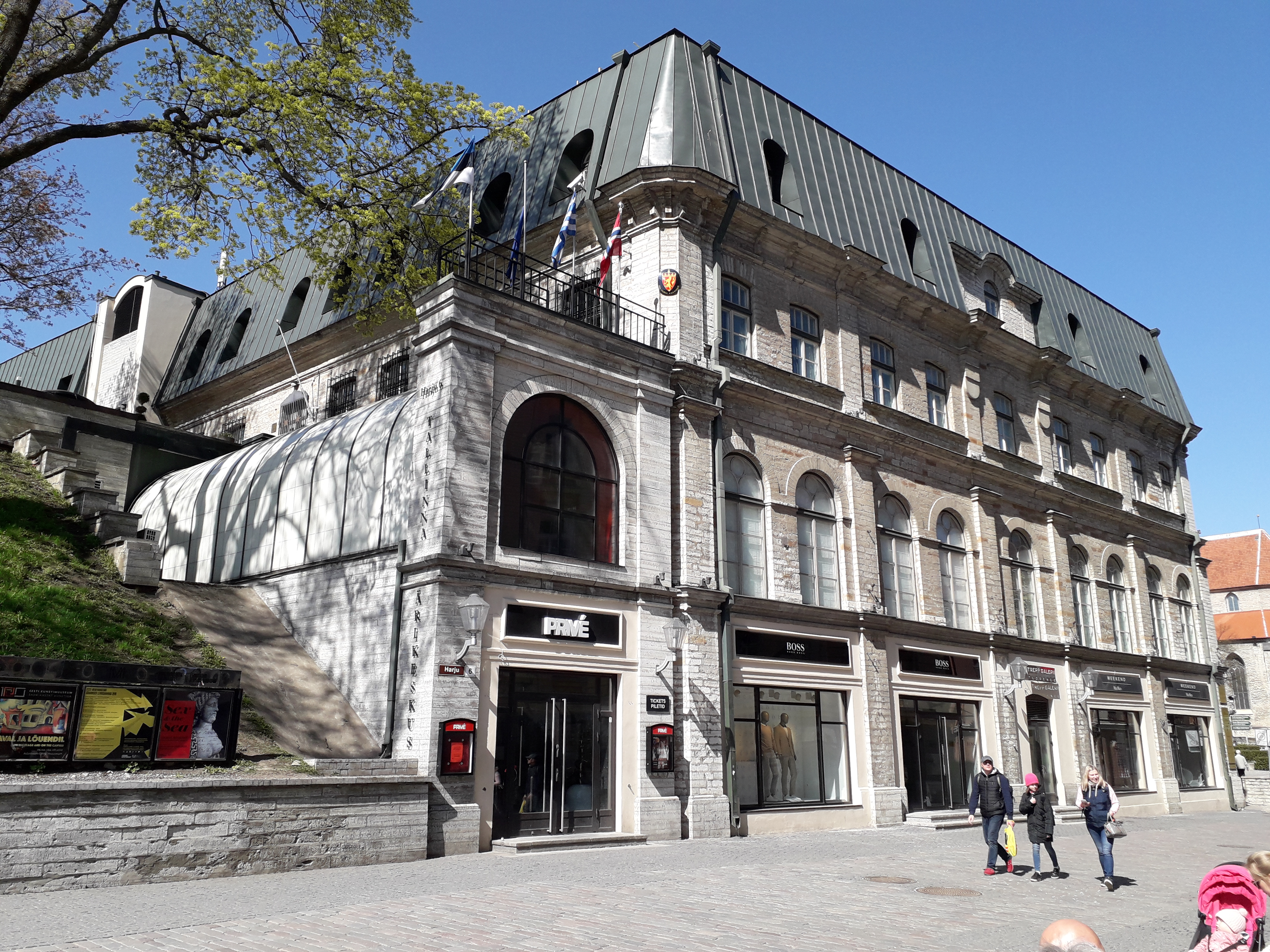 Embassy of Norway in Tallinn, Estonia